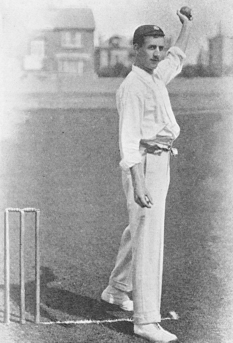 Scan of cricketer Frank Smith